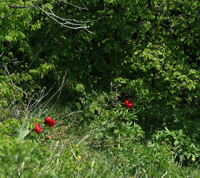 peonies in the Sondite (Parka) site, Targovishte